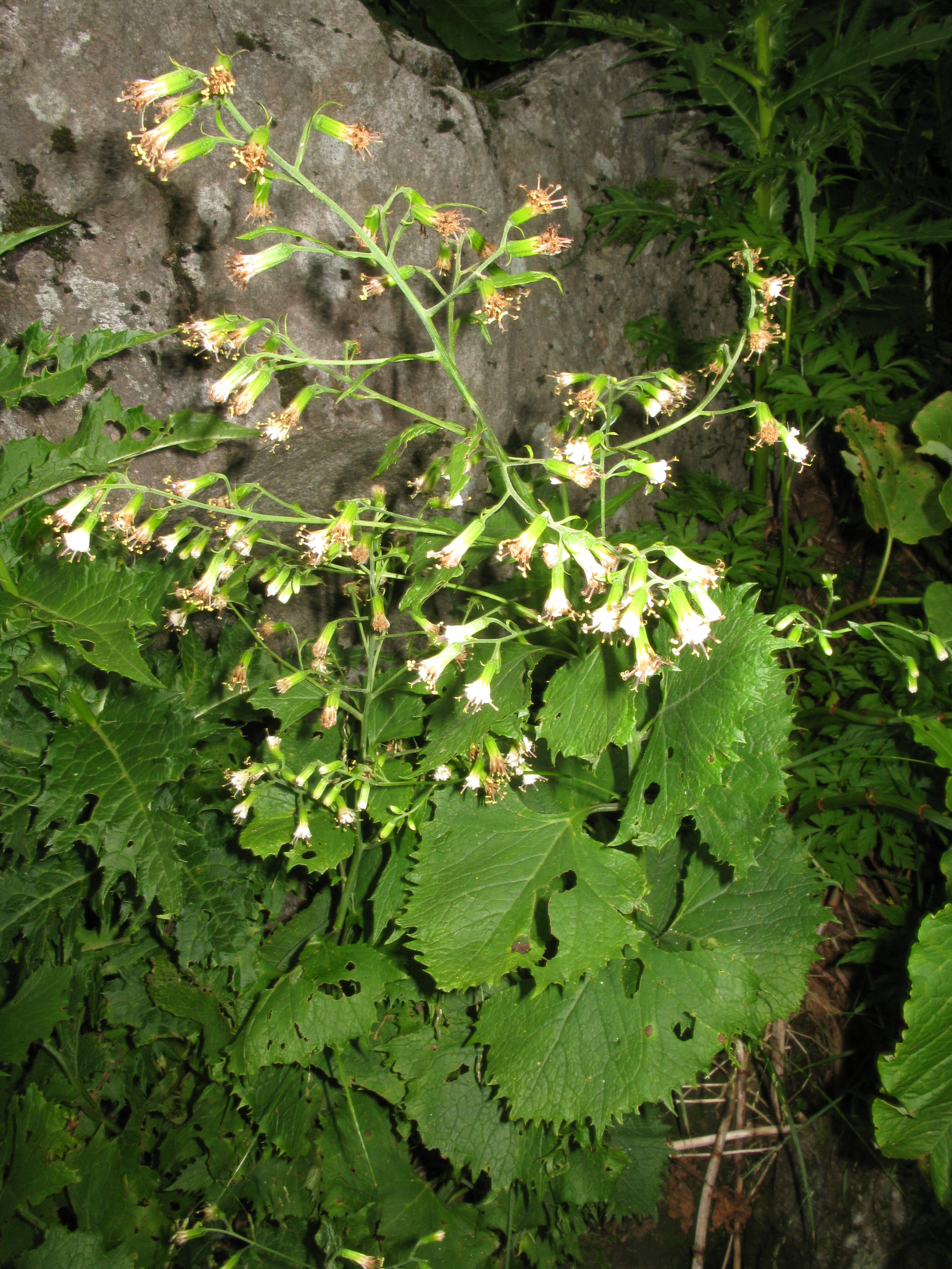 Parasenecio chokaiensis, Mount Chokai-san, Yamagata pref., Japan